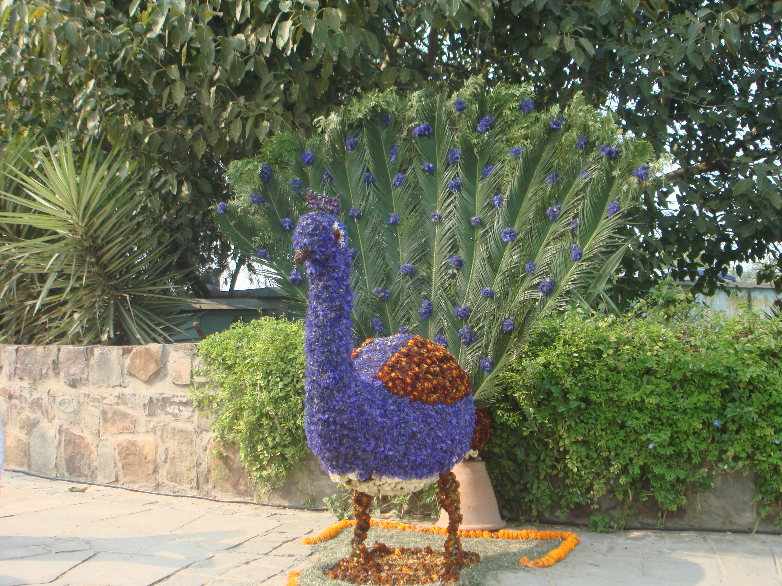 Flower Peacock exhibited on Flower Show 2011, Garden of Five Senses, Delhi